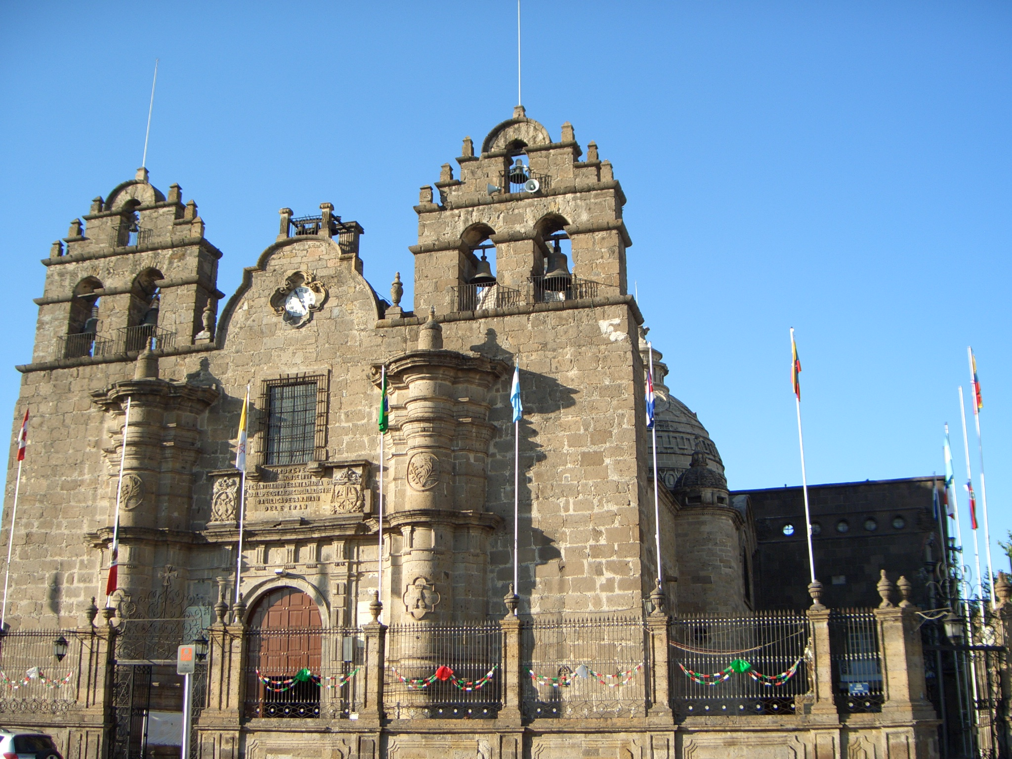 The Sanctuary of Our Lady of Guadalupe in Guadalajara, Jalisco, Mexico.